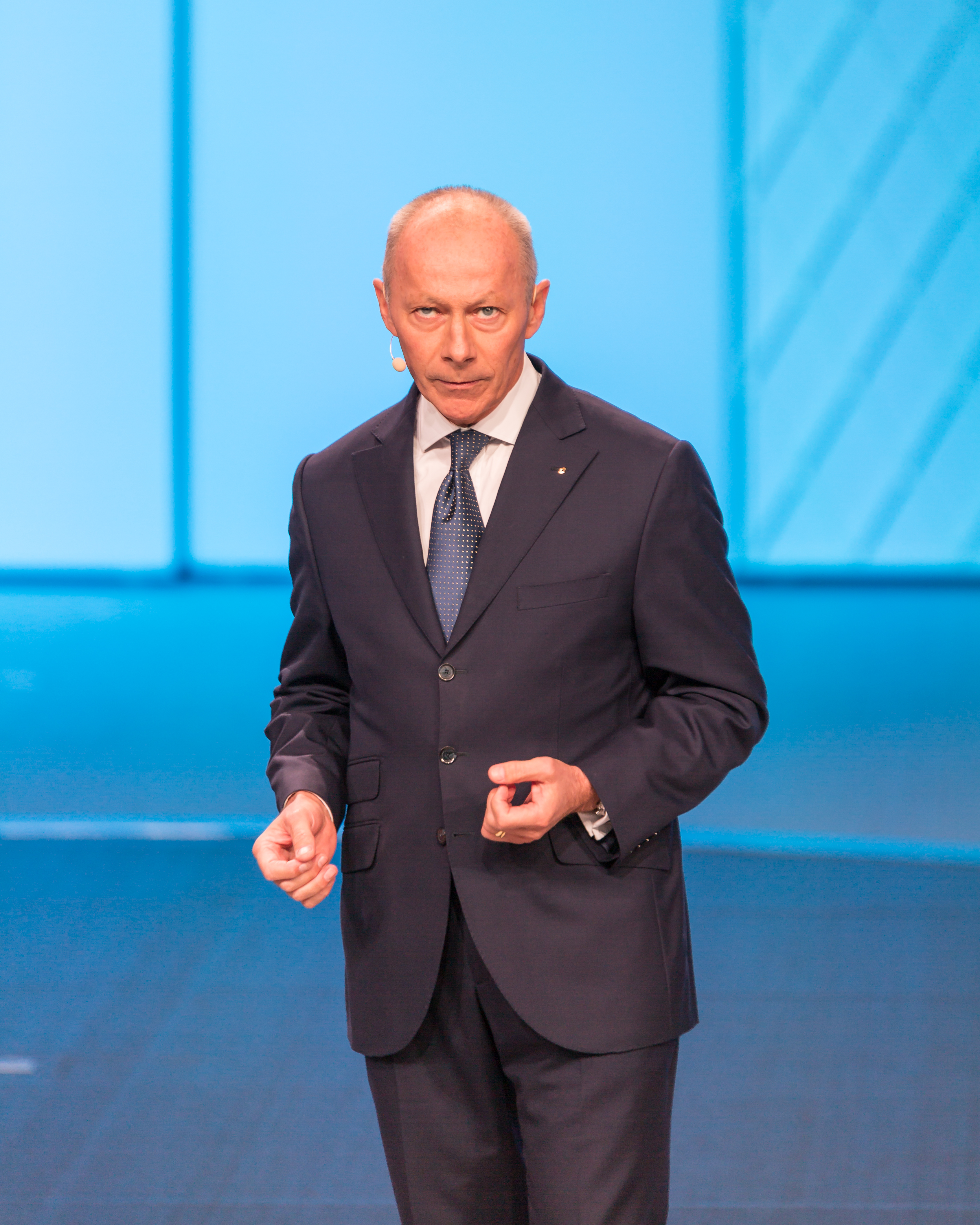 Mondial Paris Motor Show 2018